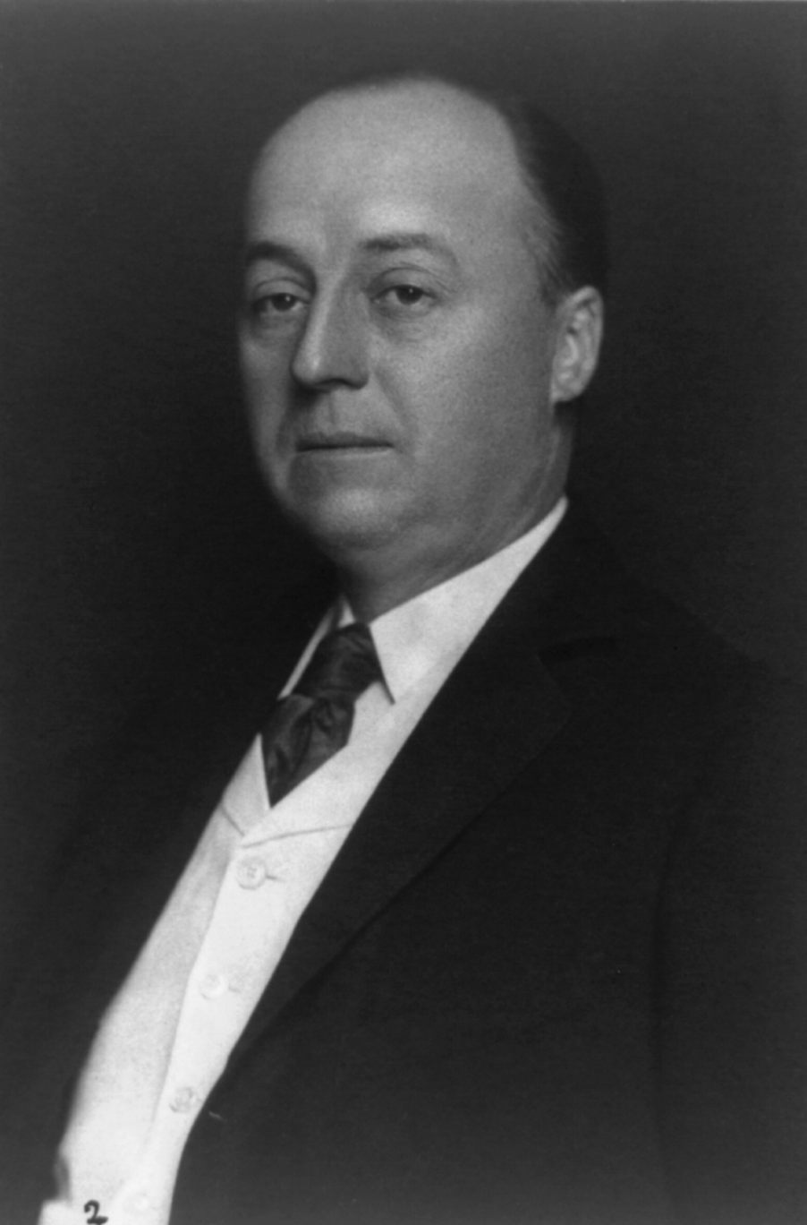 Philander Knox, U.S. Secretary of State.